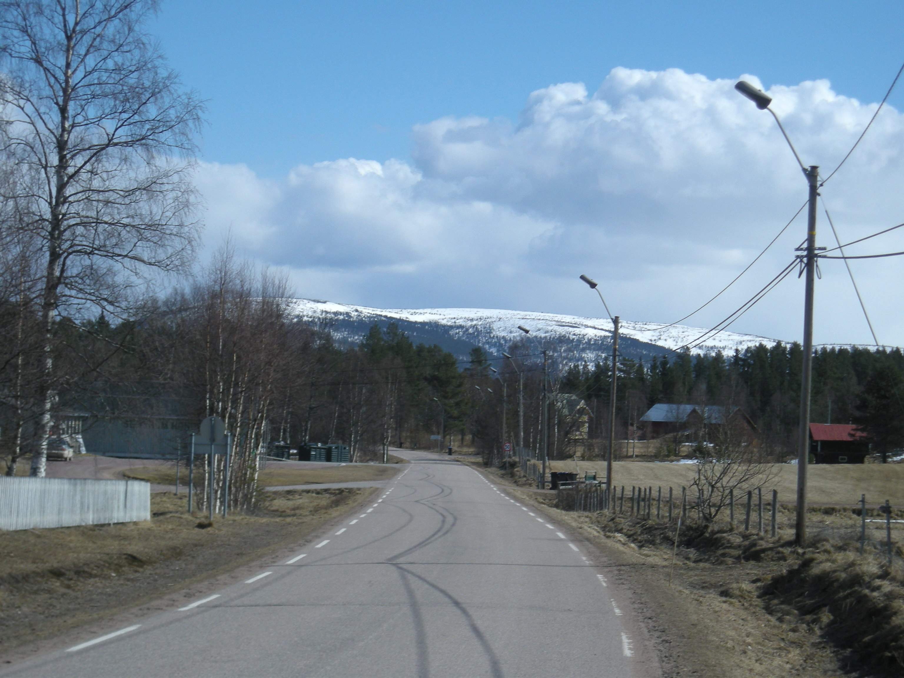 County road 570 at Ljørdalen (Trysil, Hedmark, Norway)